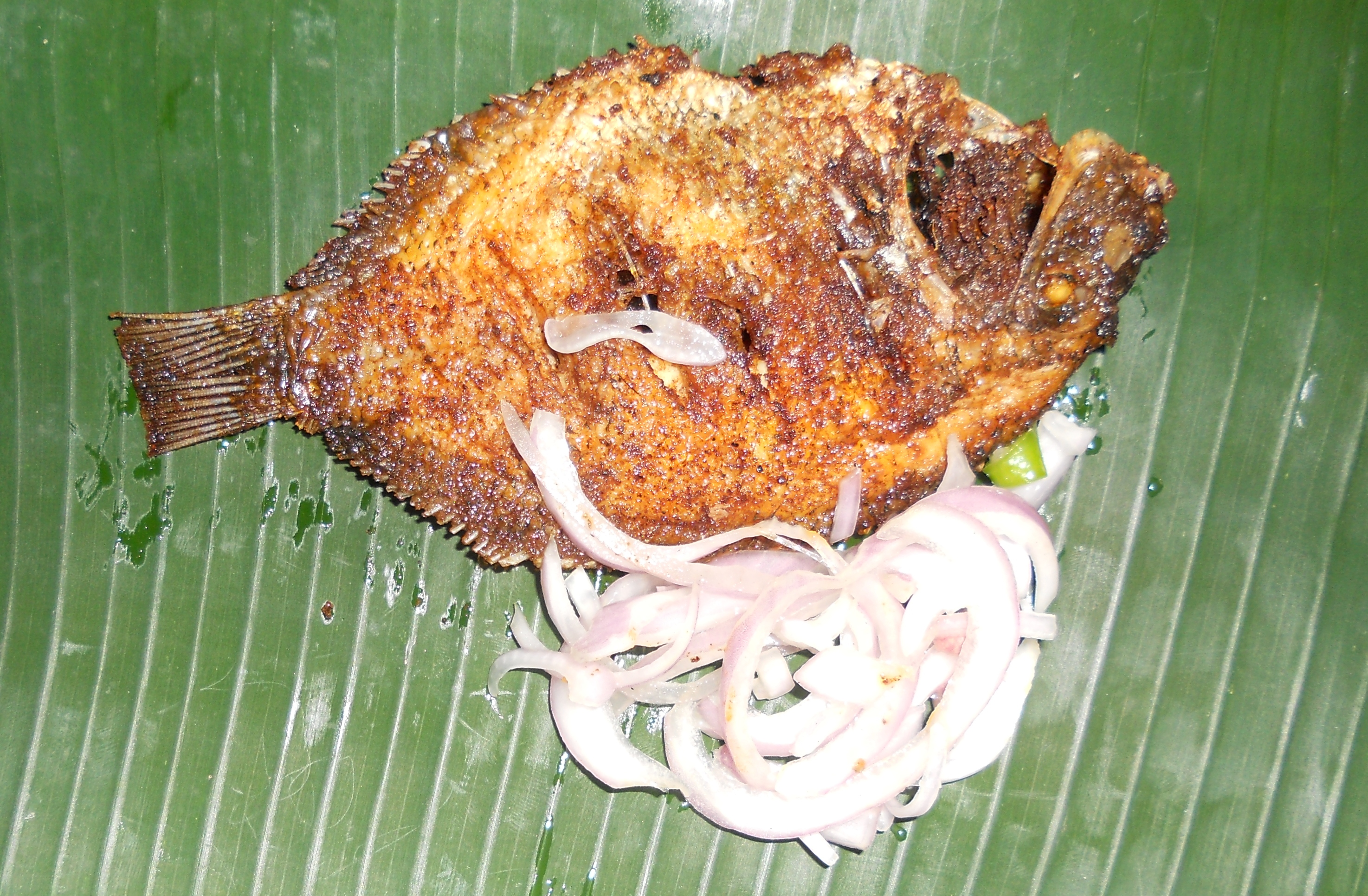 karimeen fry with onion salad